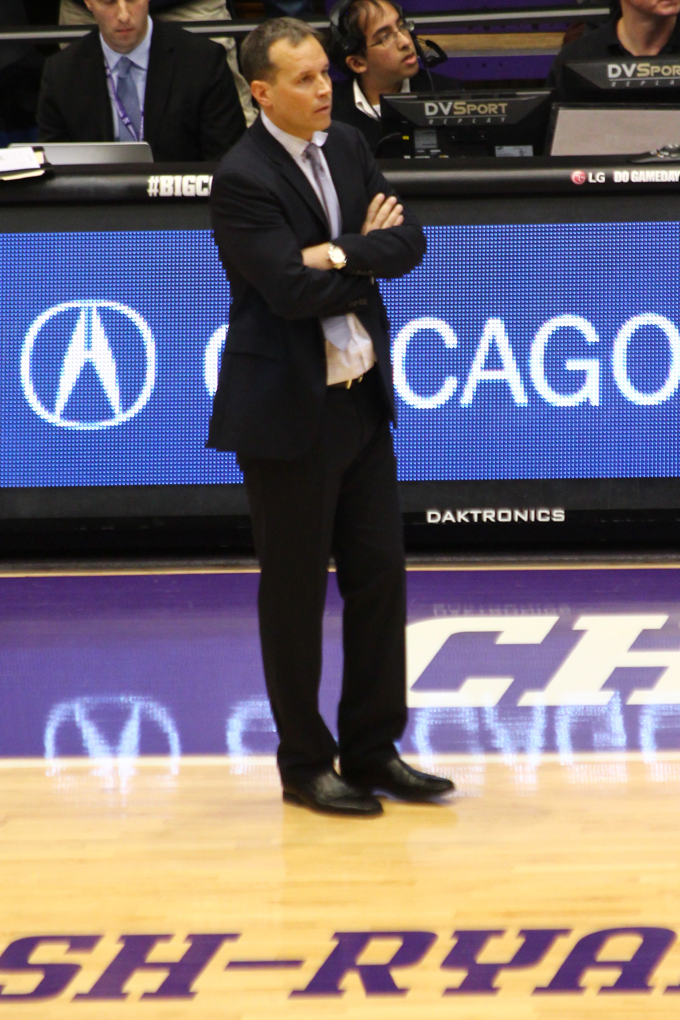 Chris Collins for the w:2014–15 Northwestern Wildcats men's basketball team at Welsh-Ryan Arena